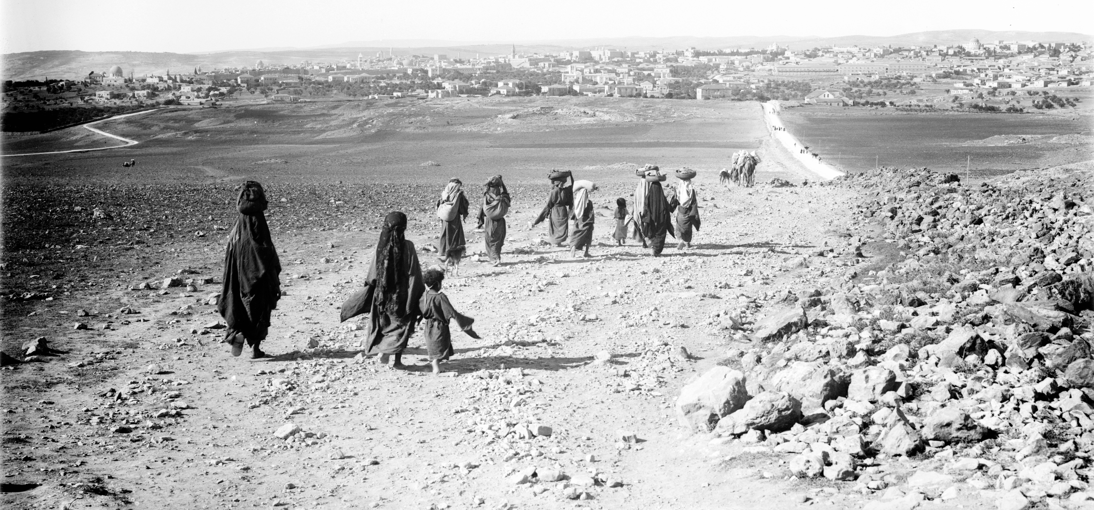 Nablus Road, Jerusalem. First view of Jerusalem from the north.